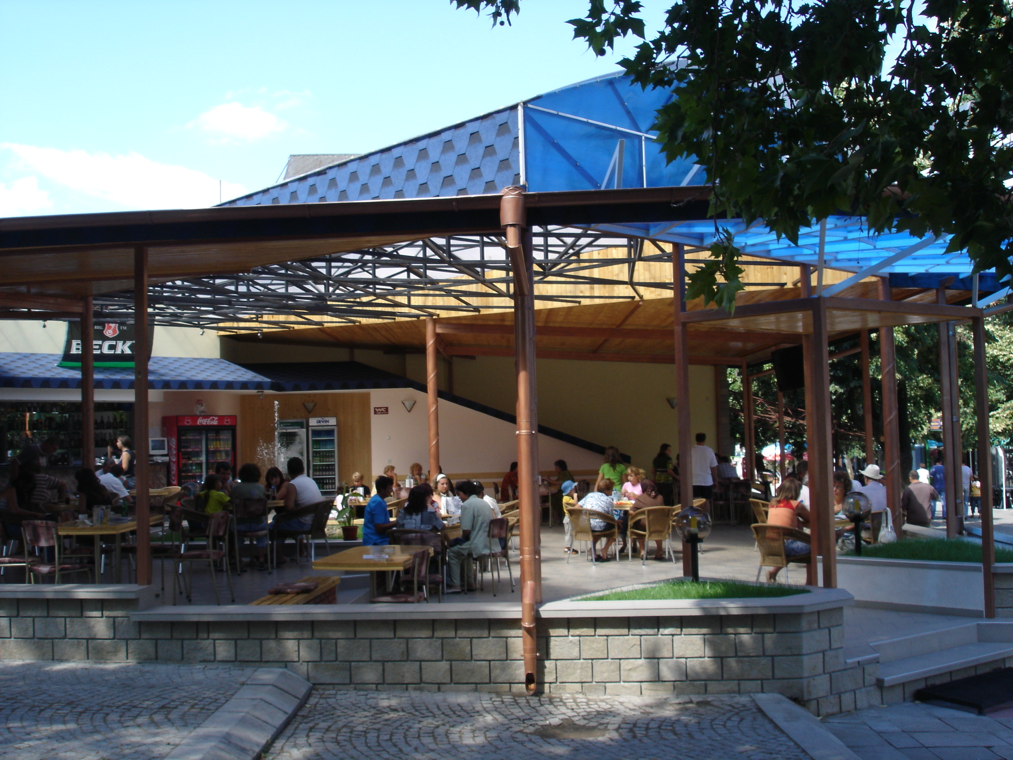 Town Elhovo, Bulgaria